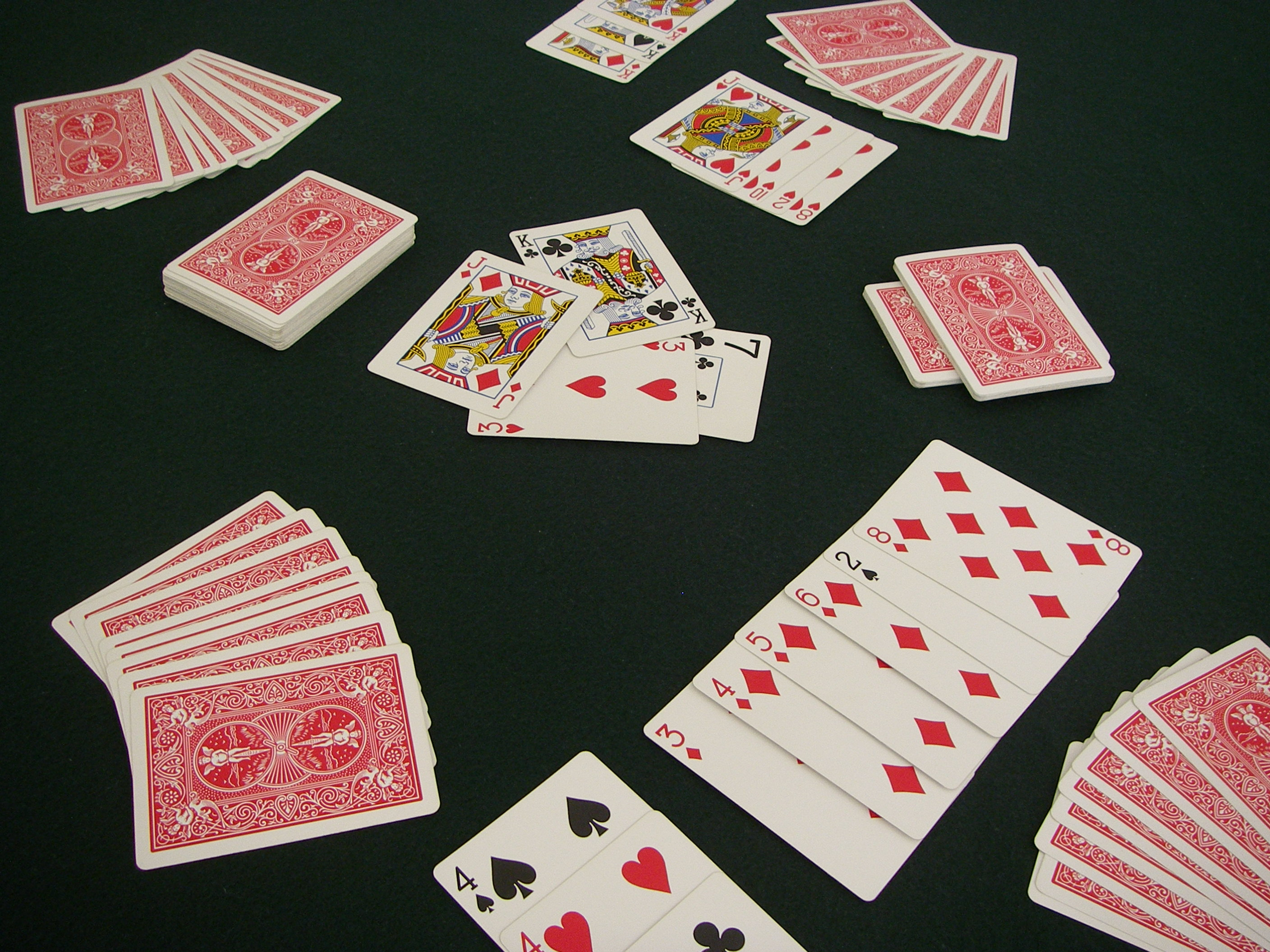 Buraco game set up for four people